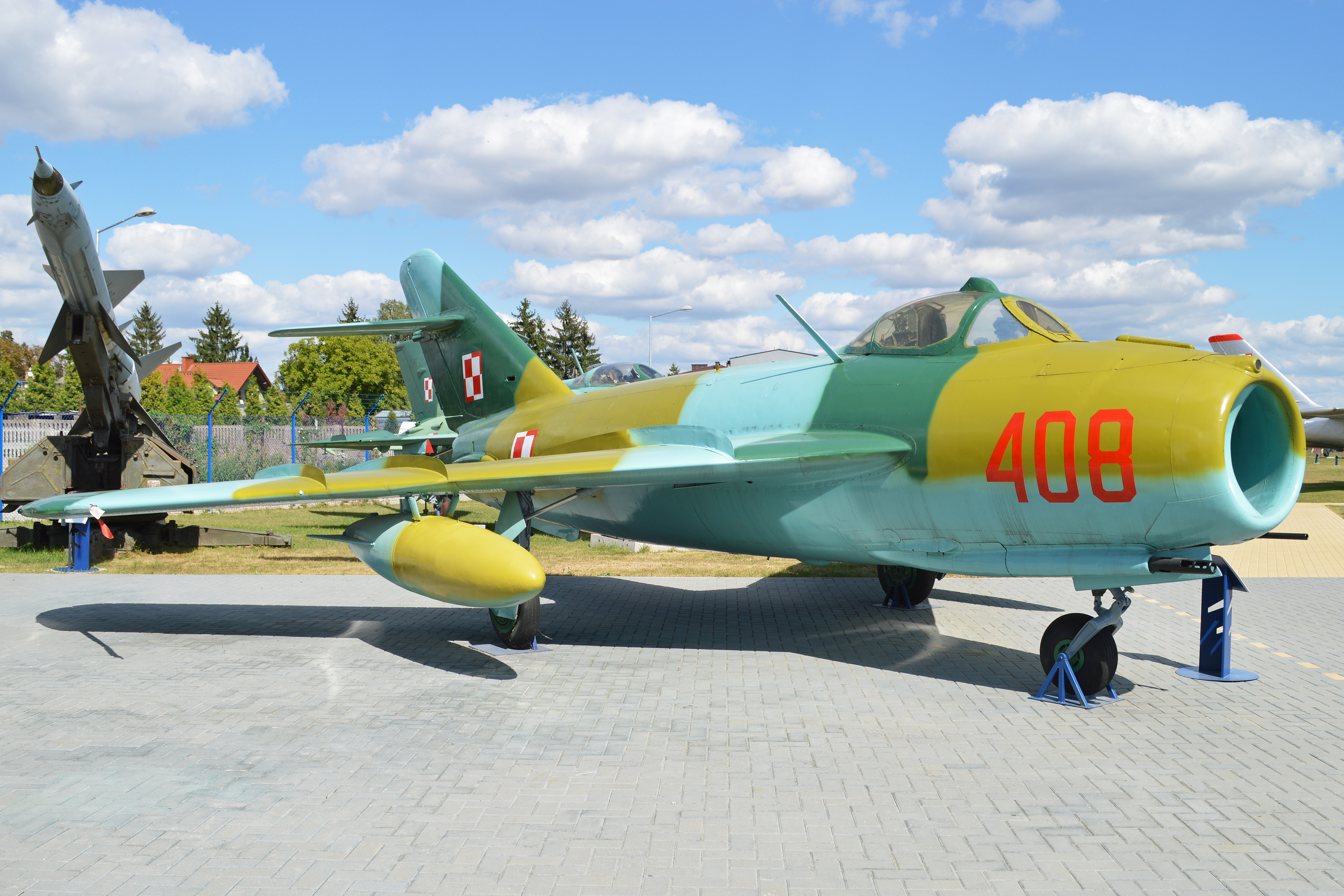 The straight Lim-5 was a basic day fighter and was the Polish built equivalent of the MiG-17F. c/n 1C-0408. On display at the Muzeum Sit Powietrznych. Deblin, Poland. 25-8-2013